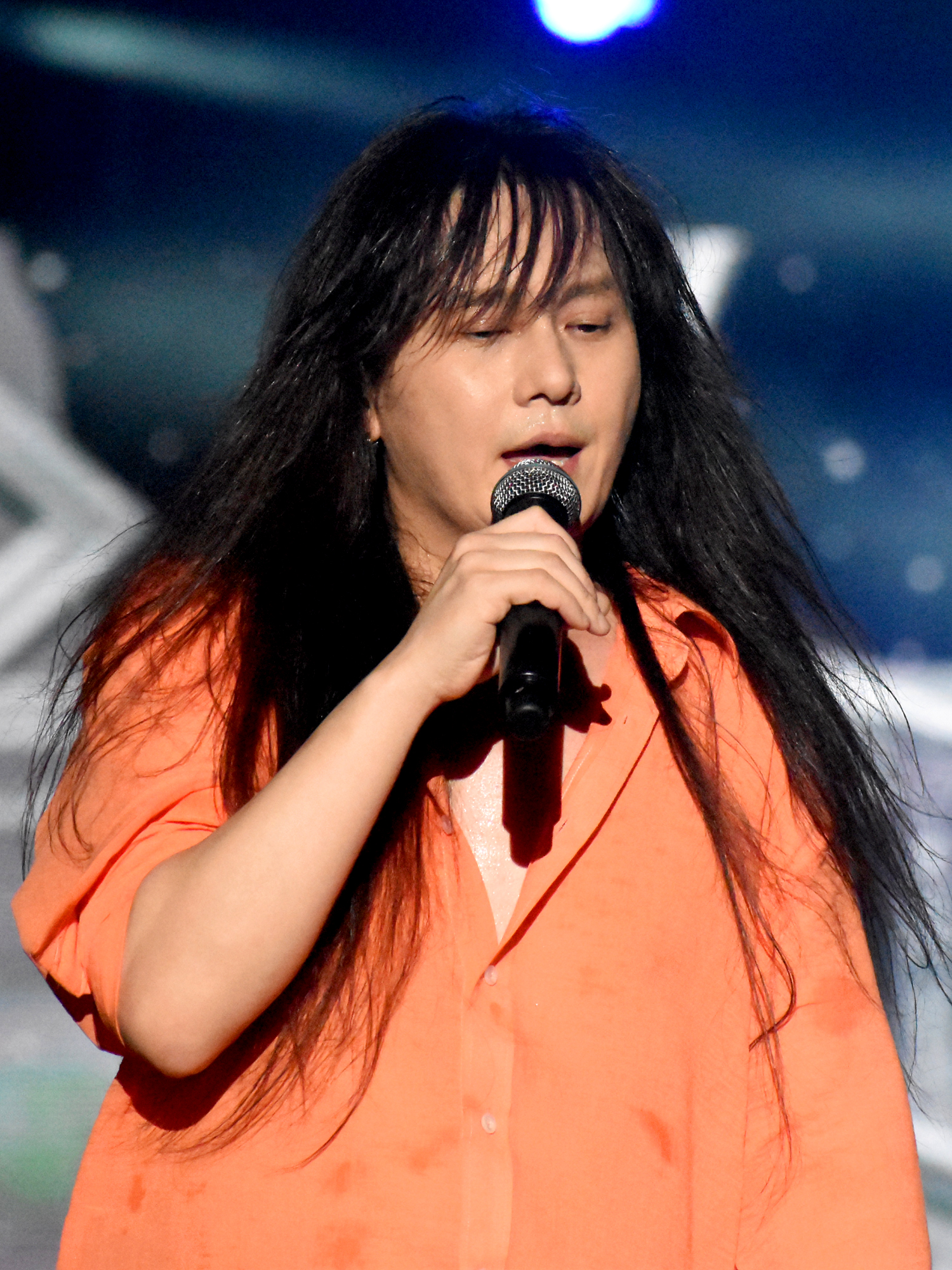 Kim Kyung-ho at the 23rd Busan Sea Festival in Haeundae on August 3, 2018.